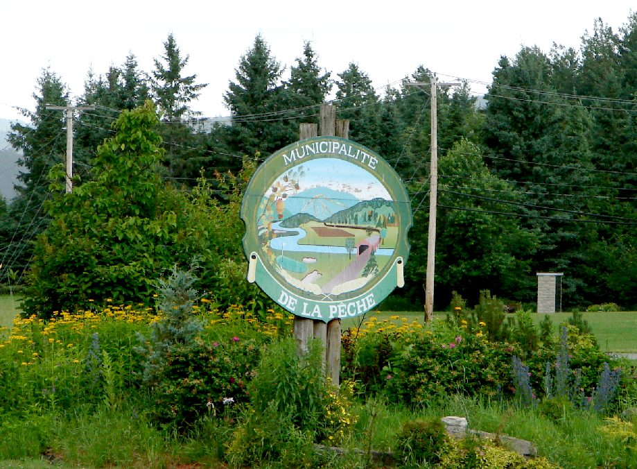 La Pêche, Quebec, Ontario